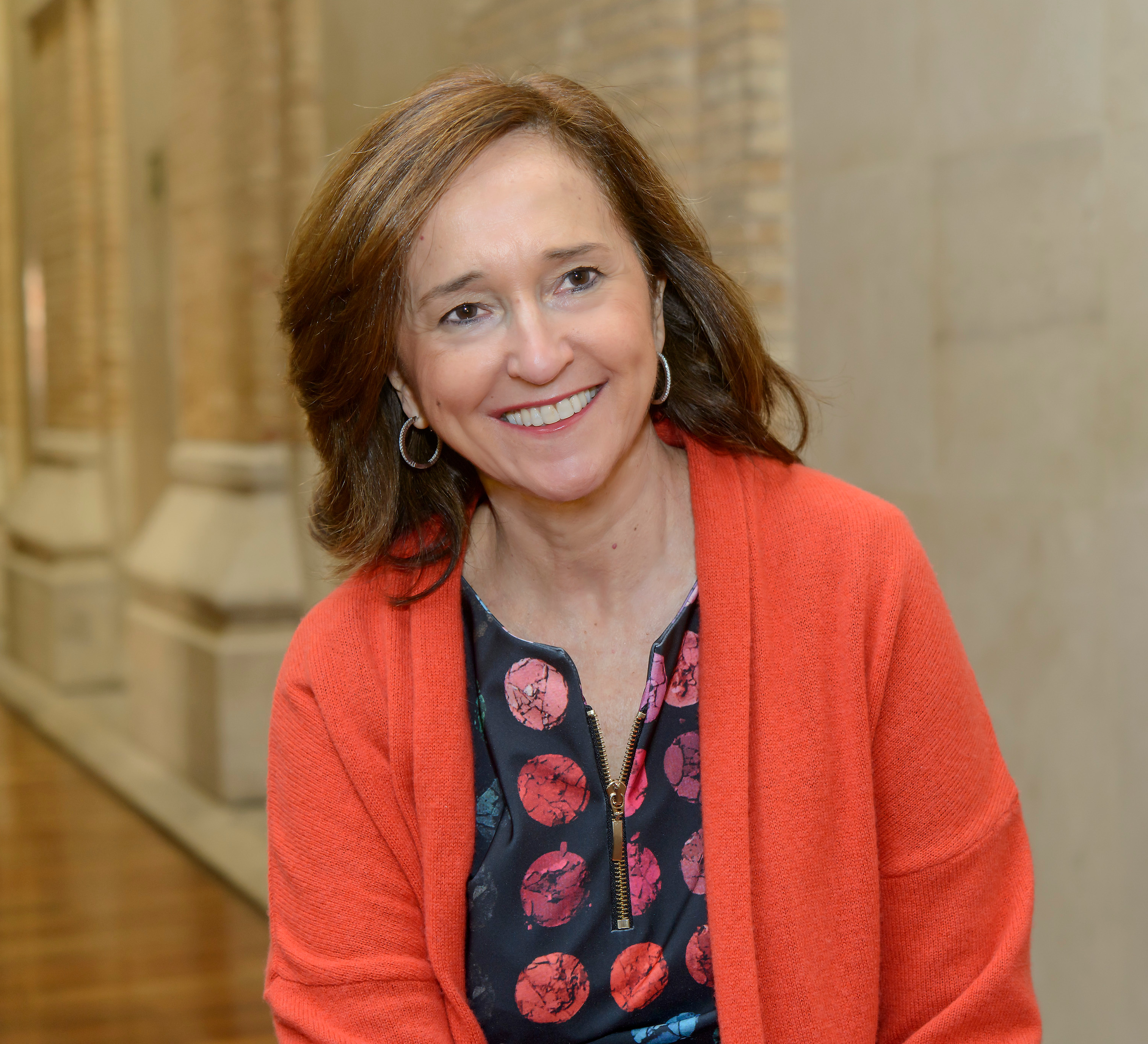 Ana Santos Aramburo at the headquarters of the National Library of Spain